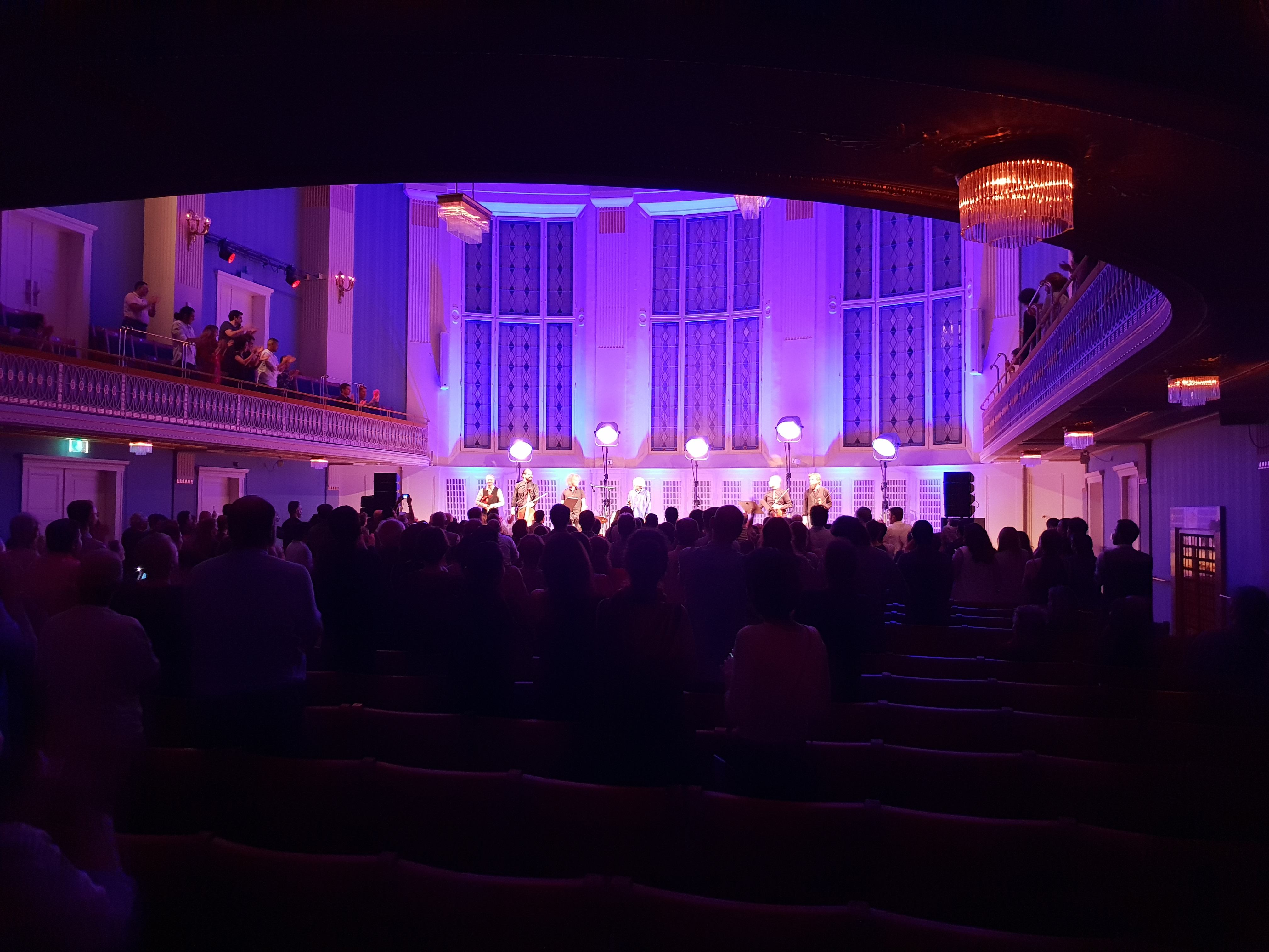 Kayhan Kalhor and Brooklyn Rider in Mozart hall in Konzerthaus - Vienna